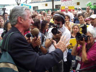 Photo of Tom Hayden addressing an anti-war demonstration in Boston during the 2004 Democratic National Convention by Brian Corr, July 29, 2004. Released under GNU Free Documentation License